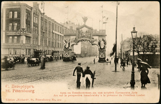 Saint Petersburg (Russia), Izmailovsky Prospect.